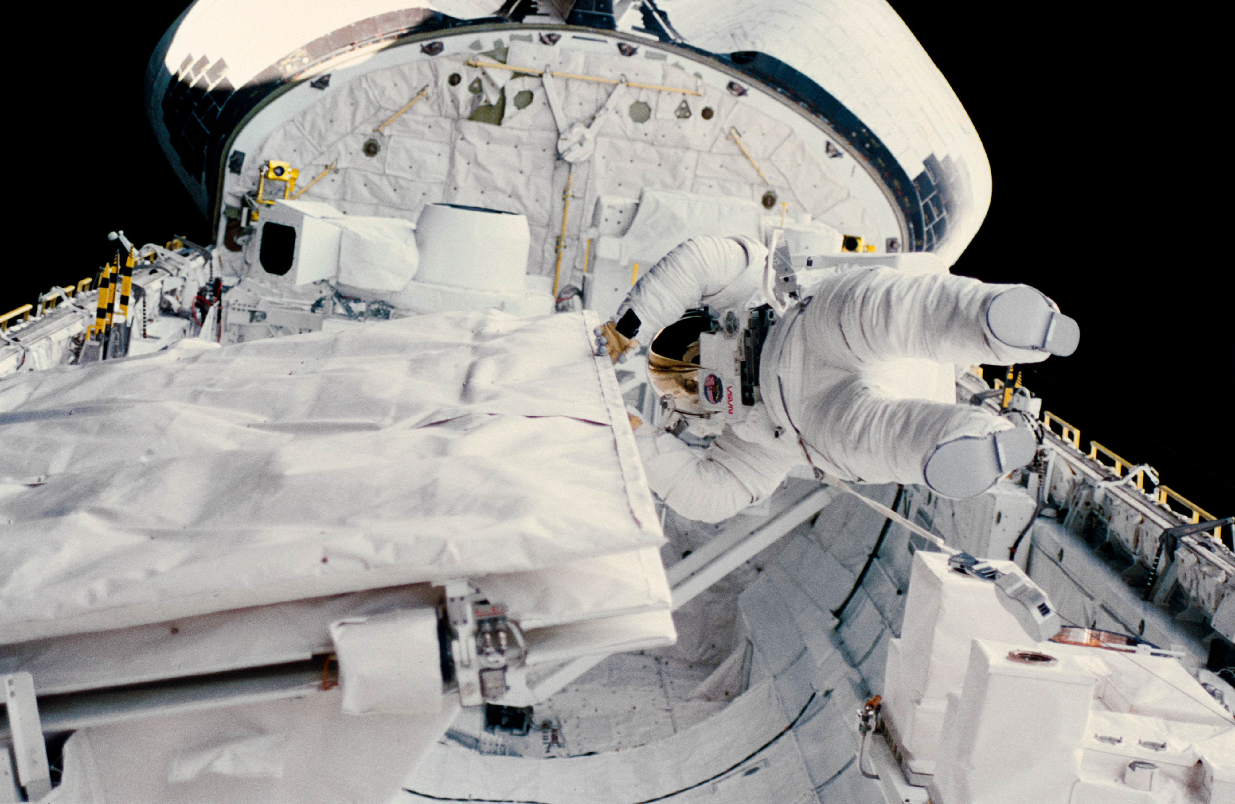 Astronaut Kathryn Sullivan checks the latch of the SIR-B antenna in the Challenger's open cargo bay during her extravehicular activity (EVA). The orbital refueling system (ORS) is just beyond the mission specialist's helmet. To the left is the large format camera (LFC). The LFC and ORS are stationed on a device called the mission peculiar experiment support structure (MPESS).